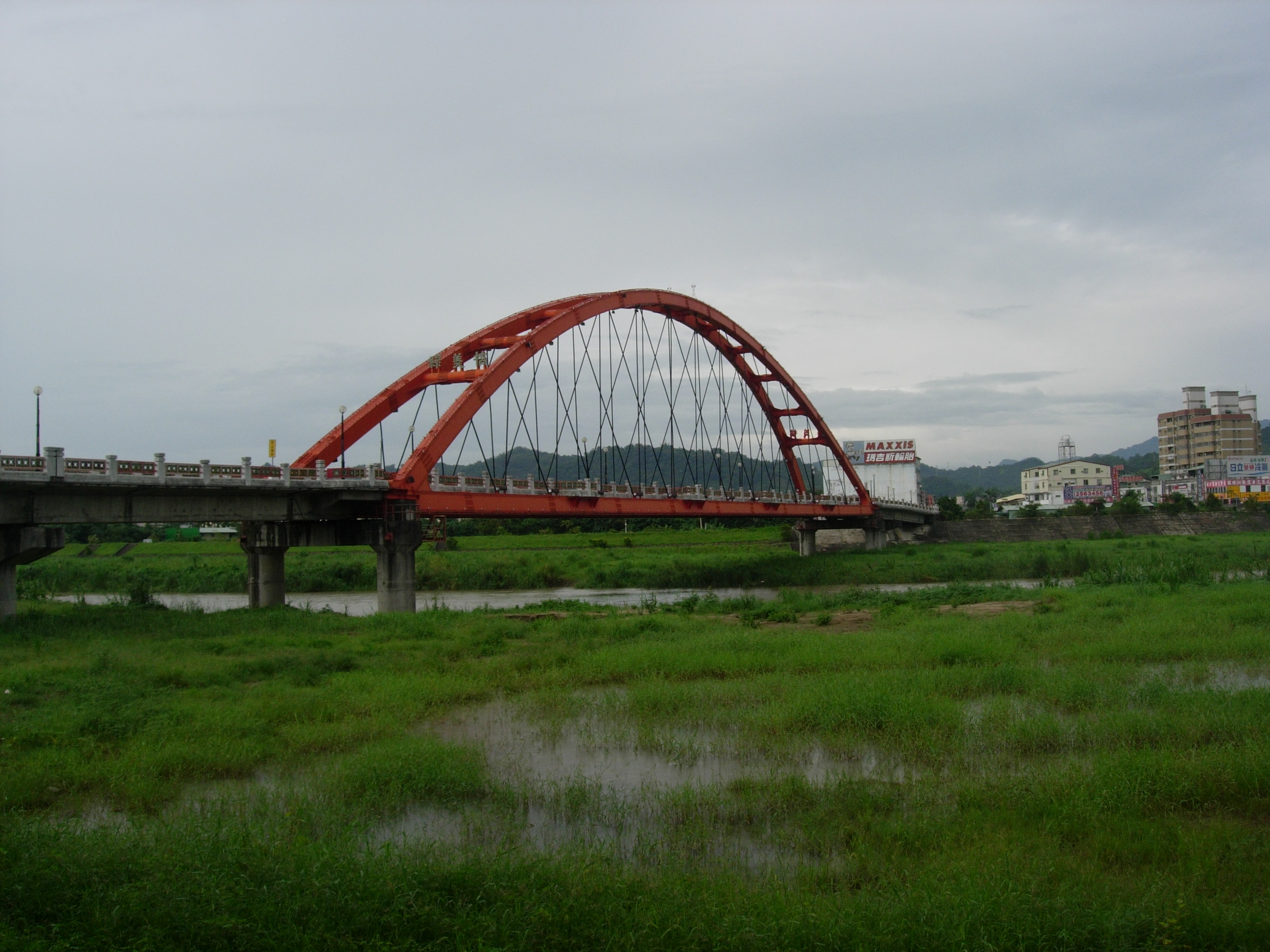 Nantou City Lumei Brige中文（台灣）: 南投市綠美橋。